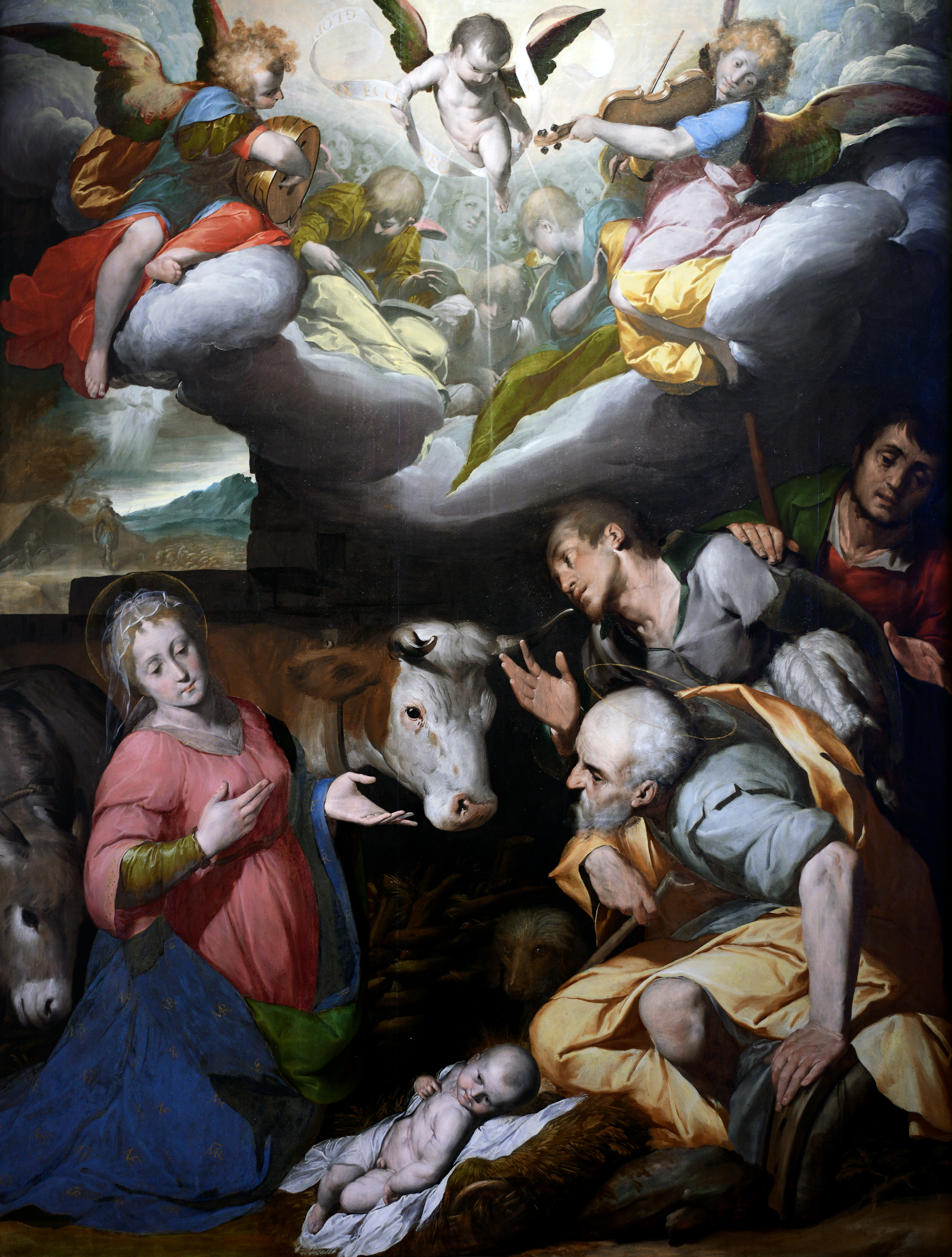 Adoration of the sheperds - Giovanni Battista Crespi